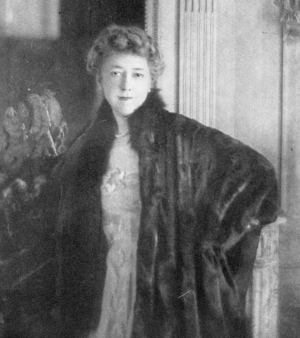 Black and white photograph of Elsie de Wolfe, 1913.